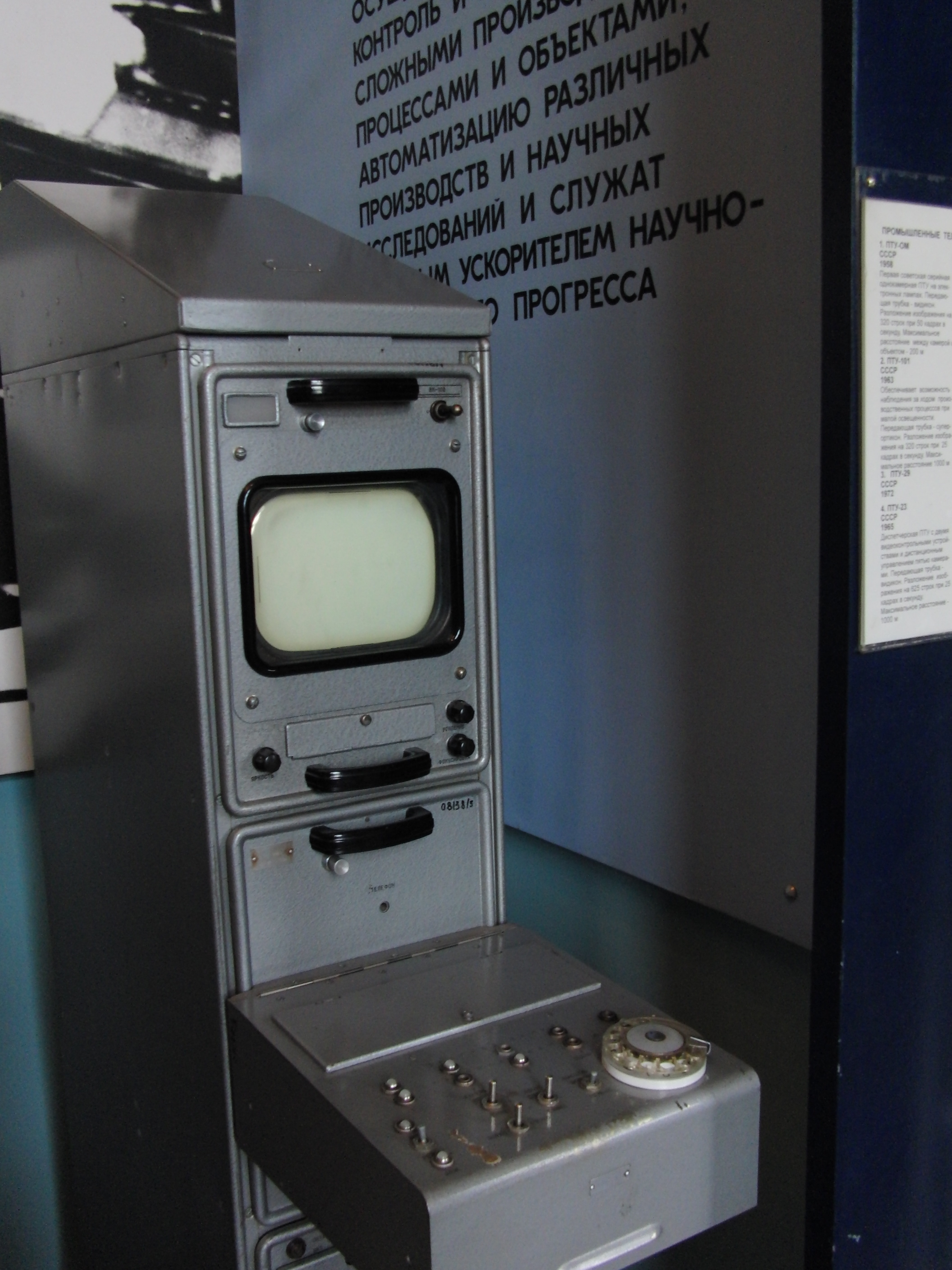 TV phone in Polytechnical Museum, Moscow